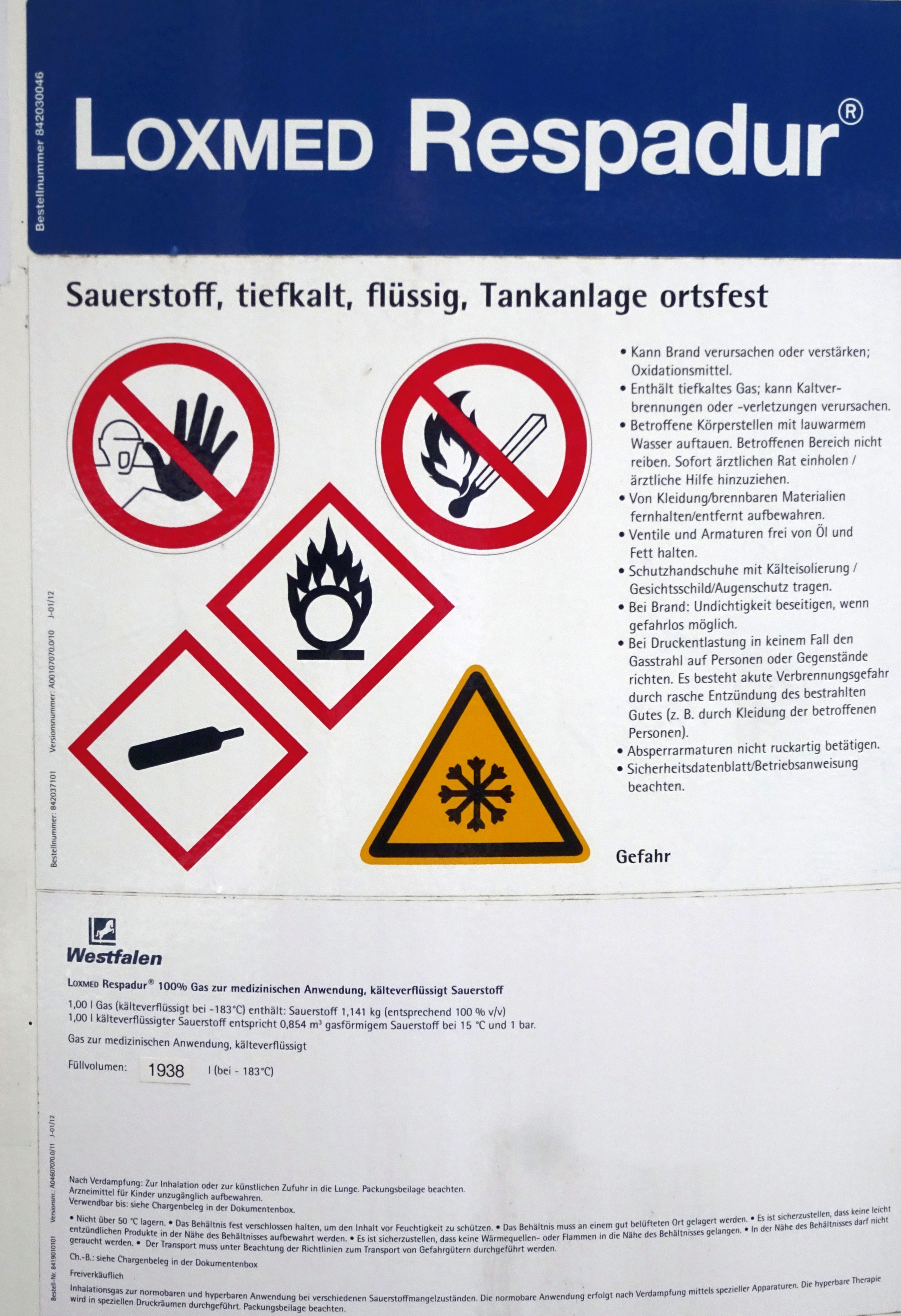 Warning signs on LOX tank of a hospital